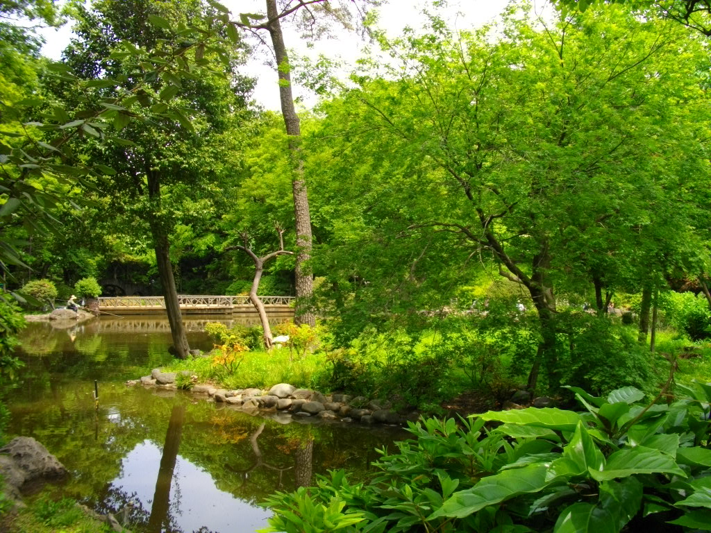 Prince Arisugawa Memorial Park